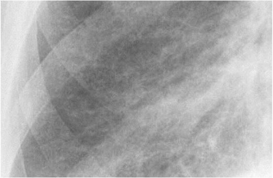 Chest X-ray/ILO Classification 2-2 S-S/close-up